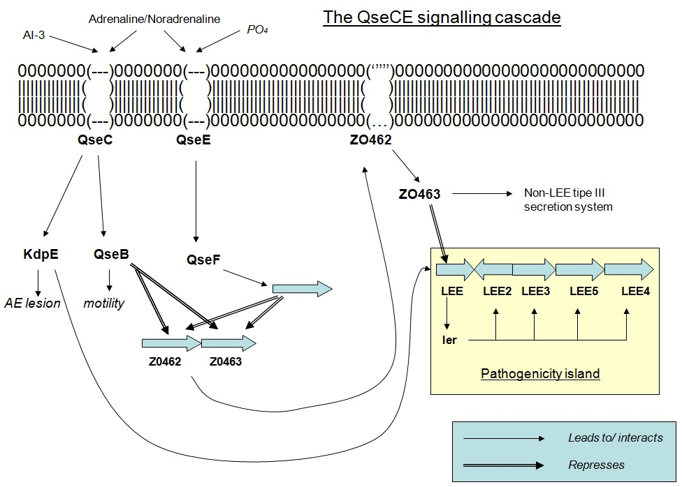 Scheme of the signalling cascade in EHEC where we can observe the effect of the sensing of some target molecules in the metabolism of Eneterohaemorragic E.coli